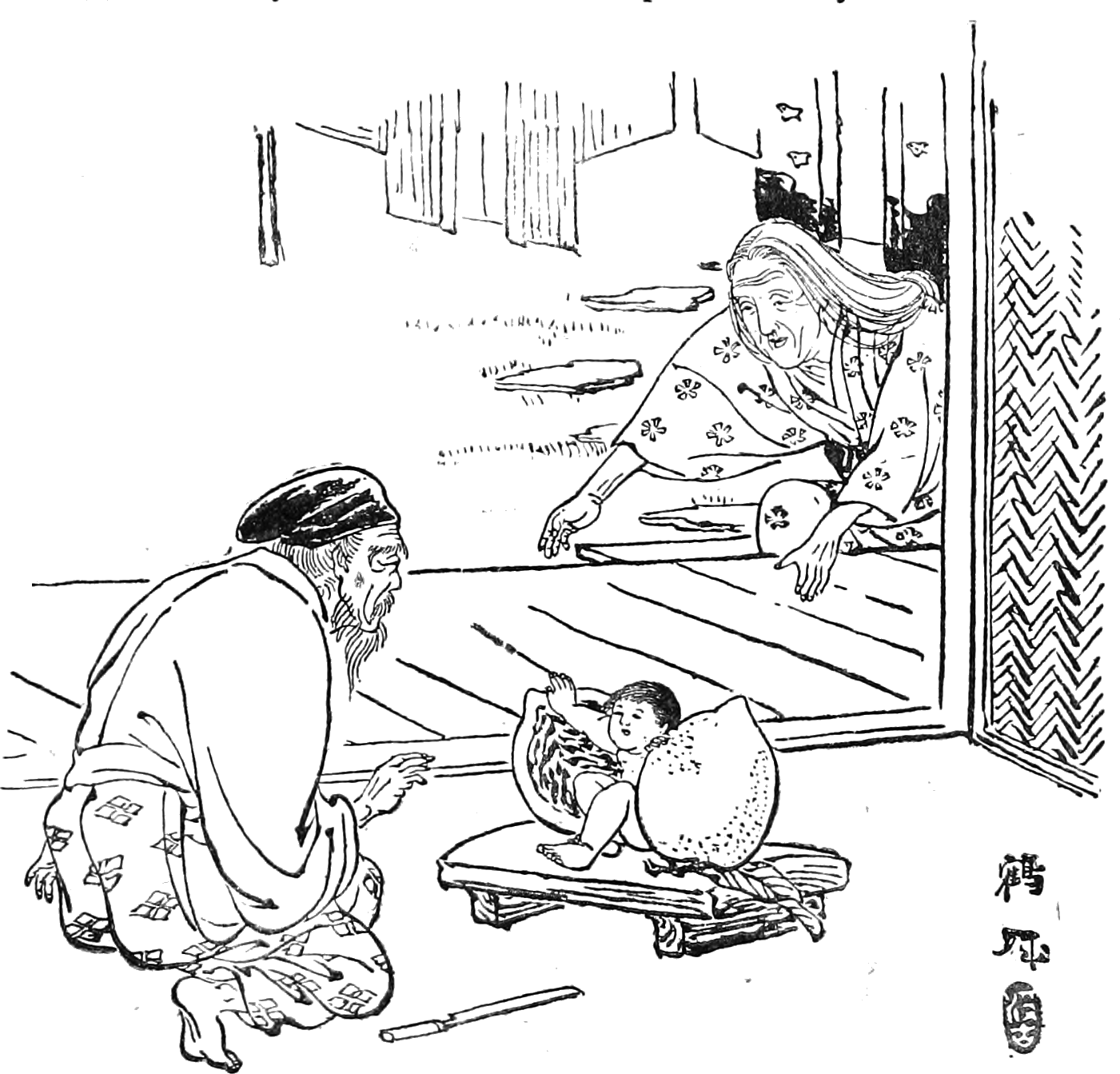 Image from The Japanese Fairy Book